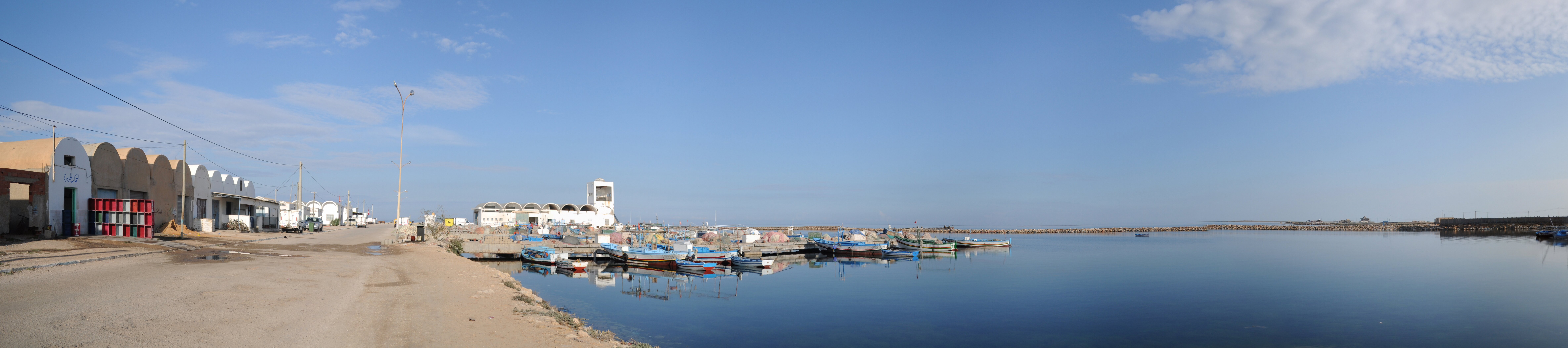 Partial view of the harbour of Kraten. Panorama digitally combined from three images.